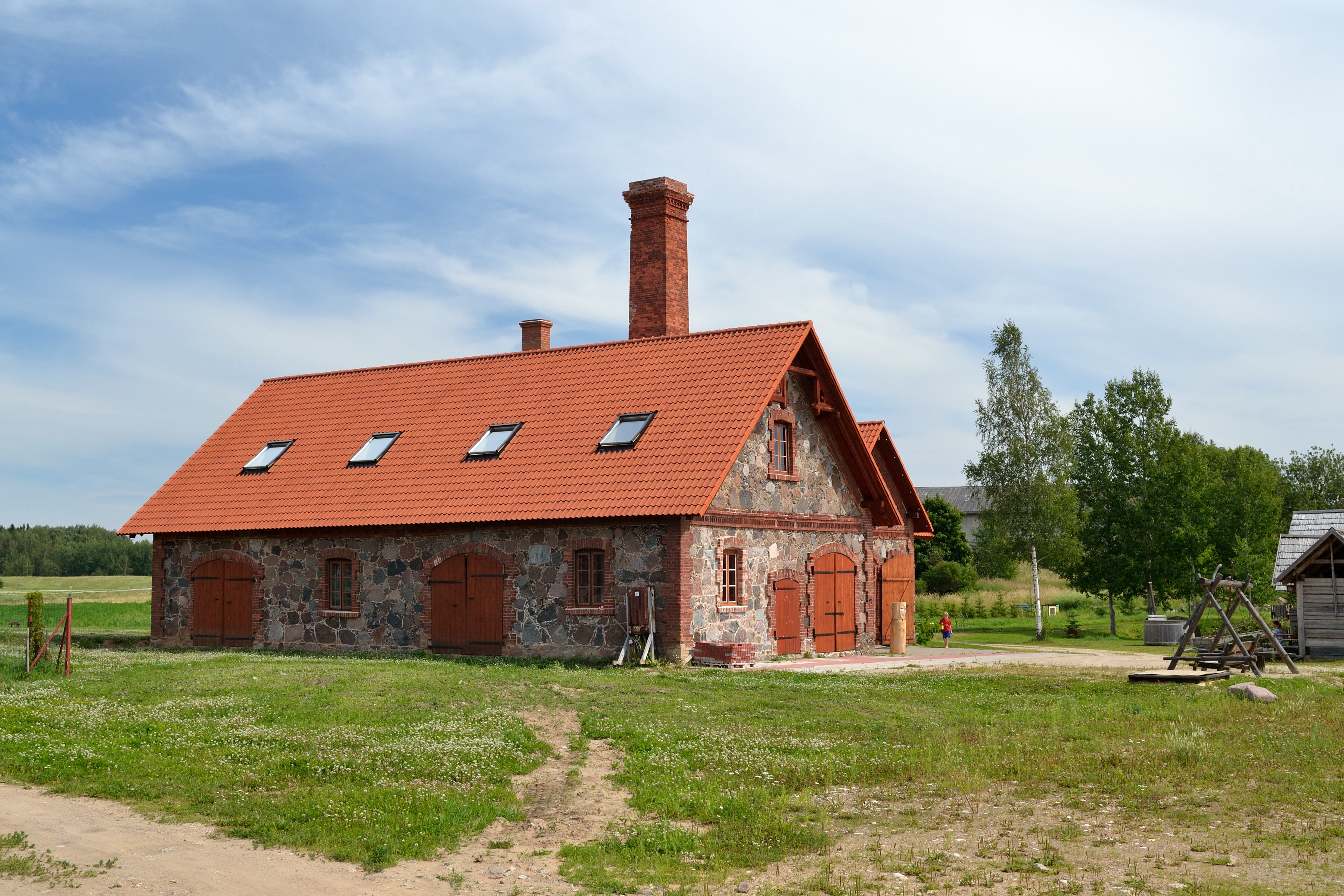 Mooste manor steam mill with boilerhouse